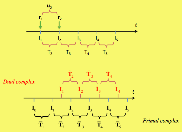 Time diagram